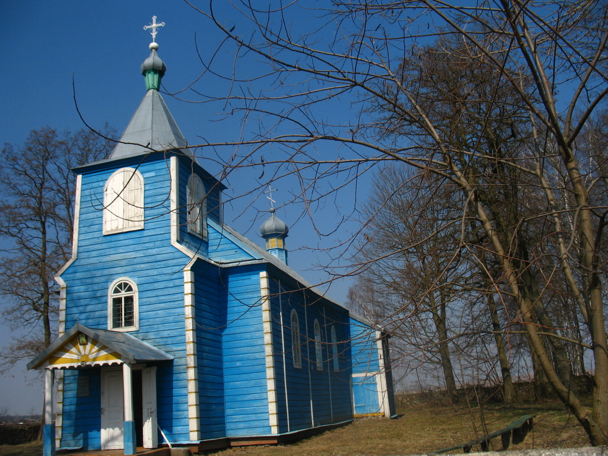 Church of St. George in Aĺba. Альба